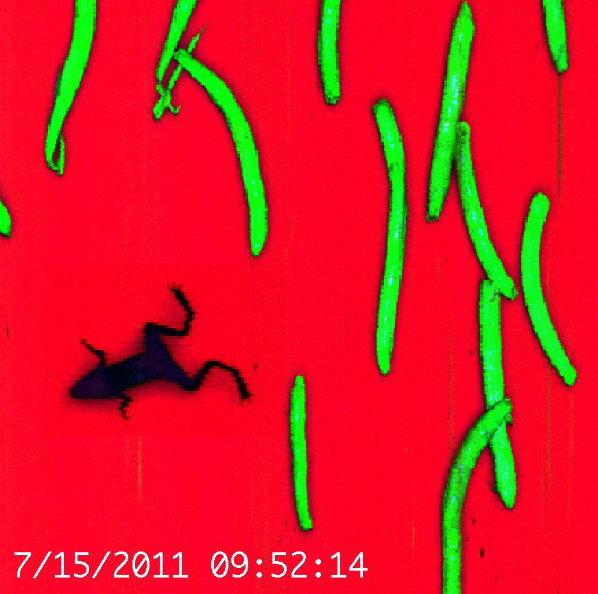 Screen shot from digital sorter showing a frog among green beans